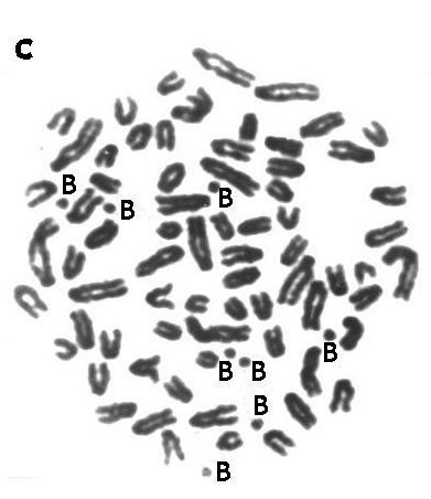 Metaphase spread of the Siberian Roe deer (Capreolus pygargus, 2n = 70 + 1-14 B's), the species with additional, or B- chromosomes